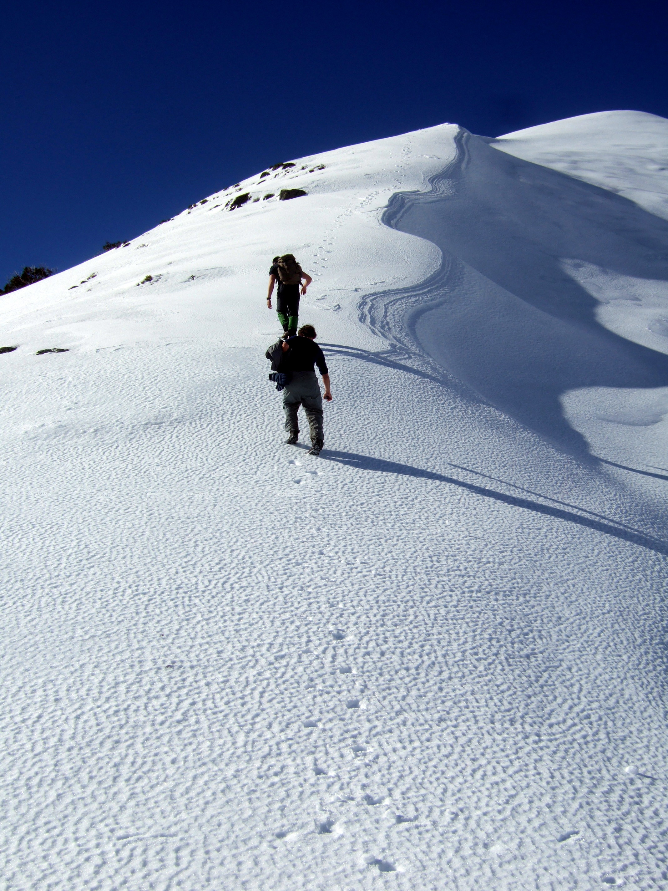 Day-trippers ascending Mt Feathertop from the MUMC hut, winter 2009.